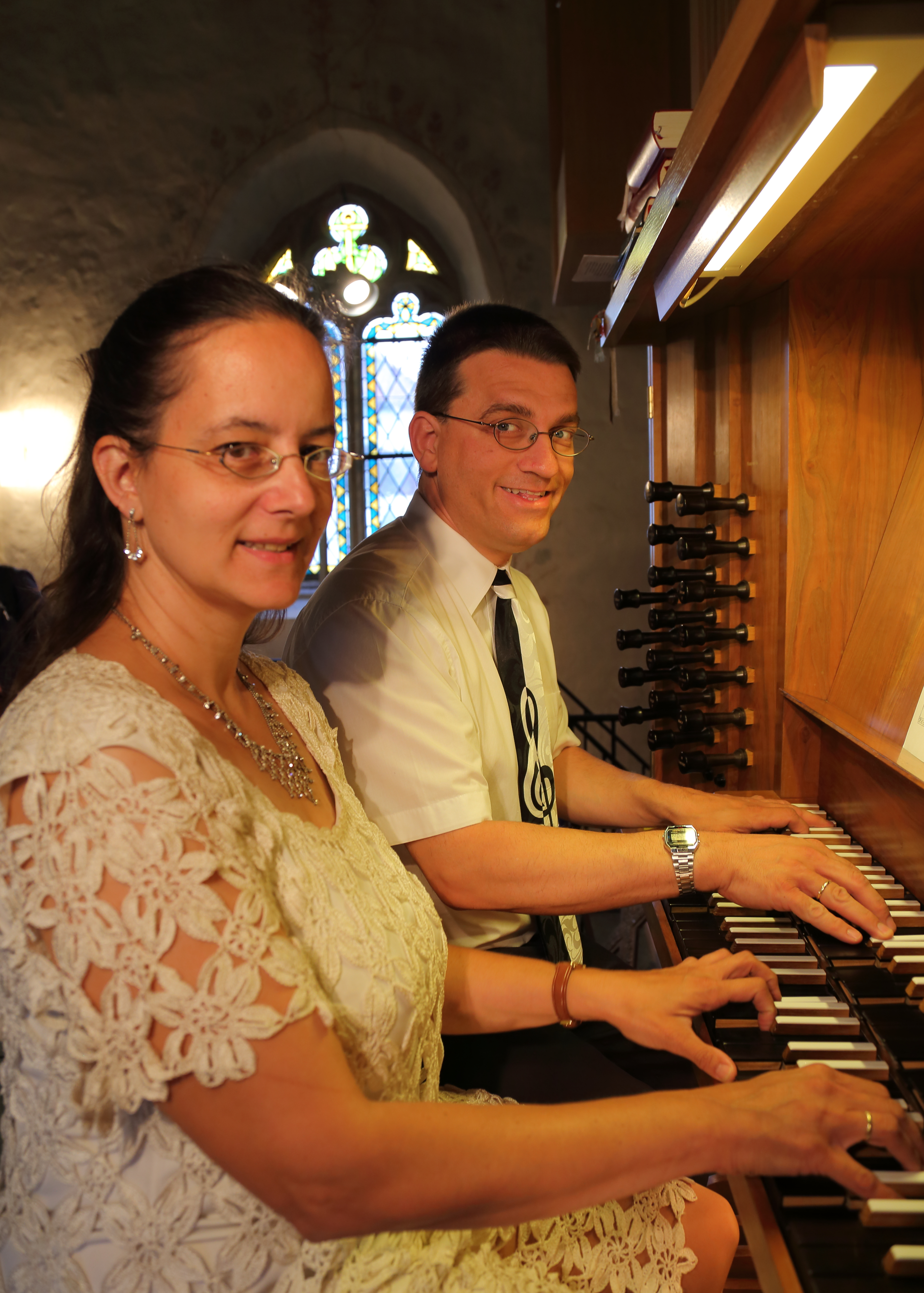 German organists Iris and Carsten Lenz on the Ott pipe organ console of the Protestant Church in Mettingen, Kreis Steinfurt, North Rhine-Westphalia, Germany.